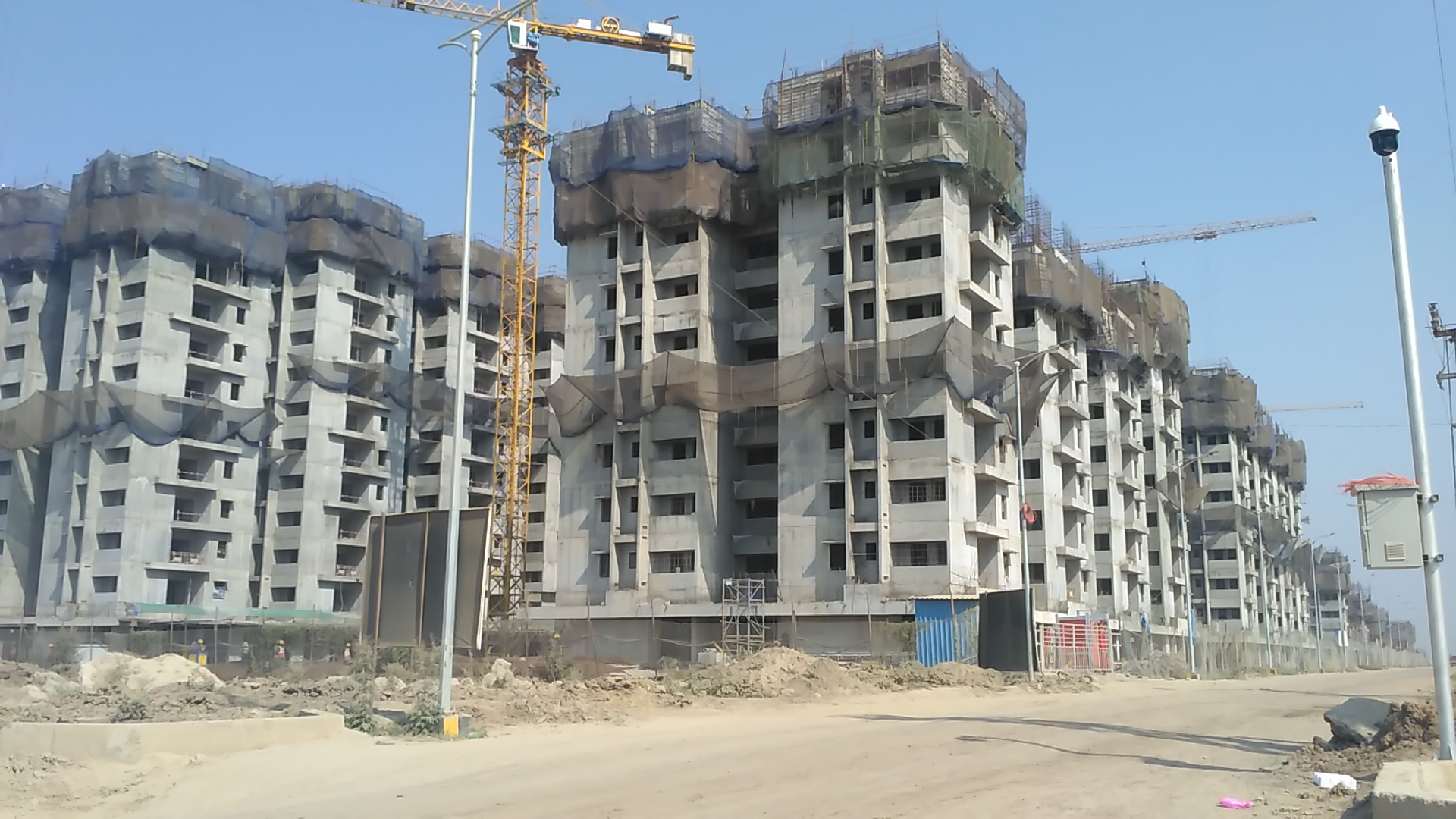 Amaravati is a Green Field city under construction in Indian state of Andhra Pradesh